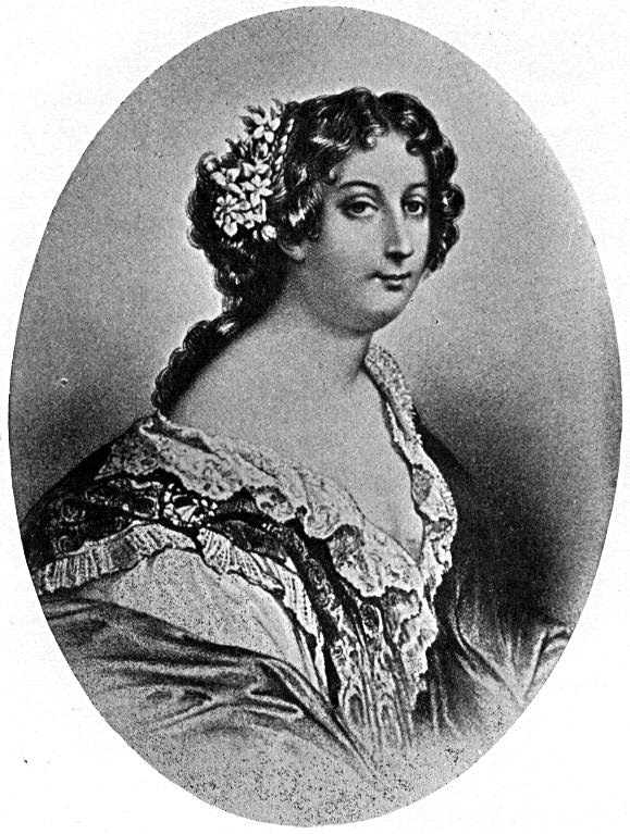 Portrait of Anne Marie Louise d'Orléans, duchesse of Montpensier